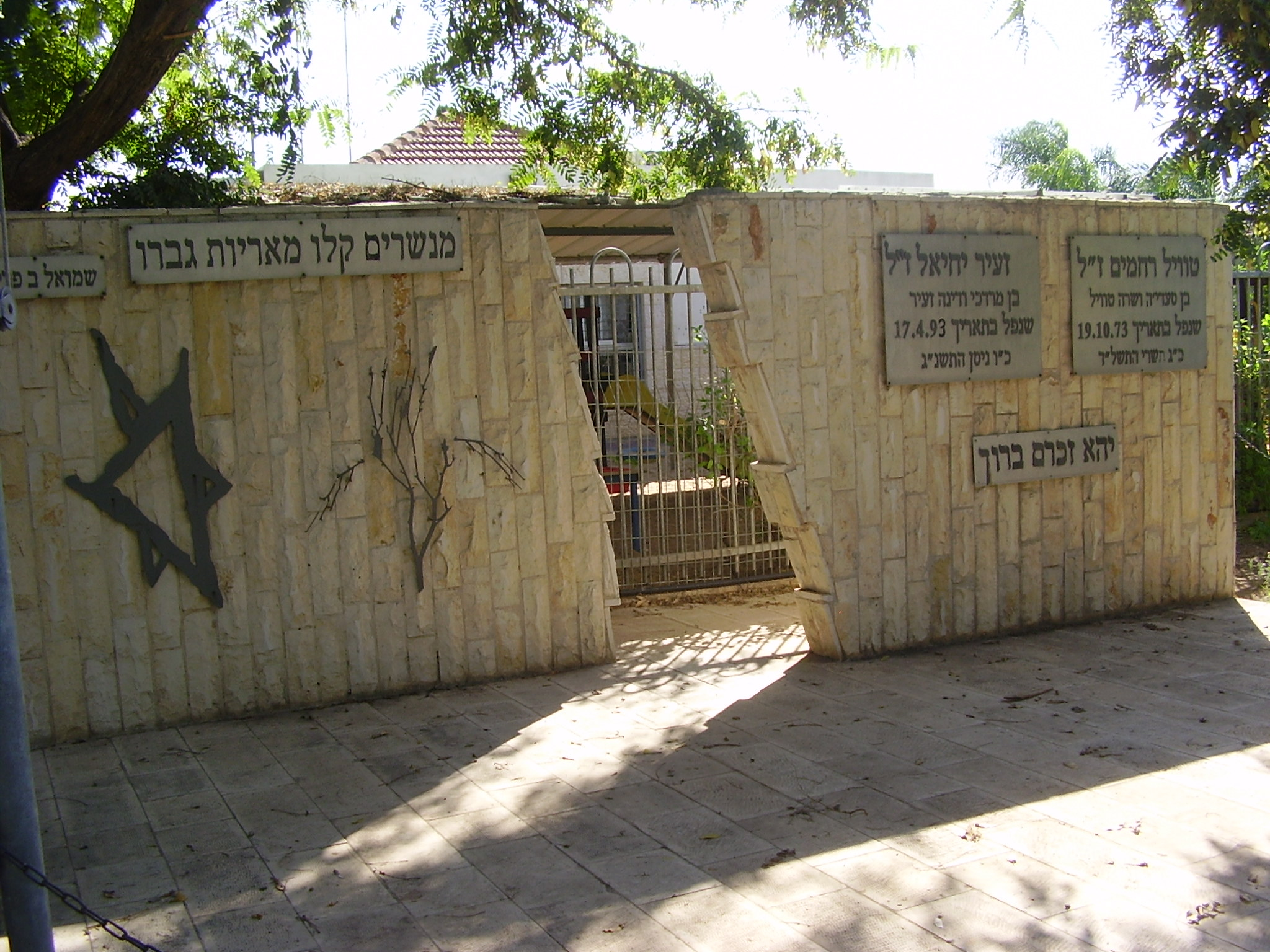 war memorial in shtulim